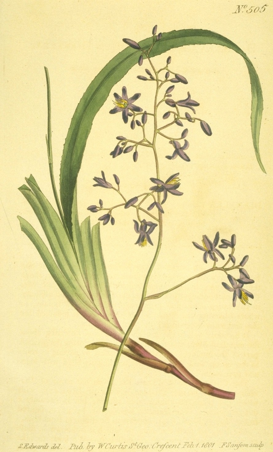 Reproduction of an image that appeared in The Botanical Magazine vol. 15. no. 505 (1801). The title is Dianella caerulea. Blue Dianella. It depicts the plant species Dianella caerulea.